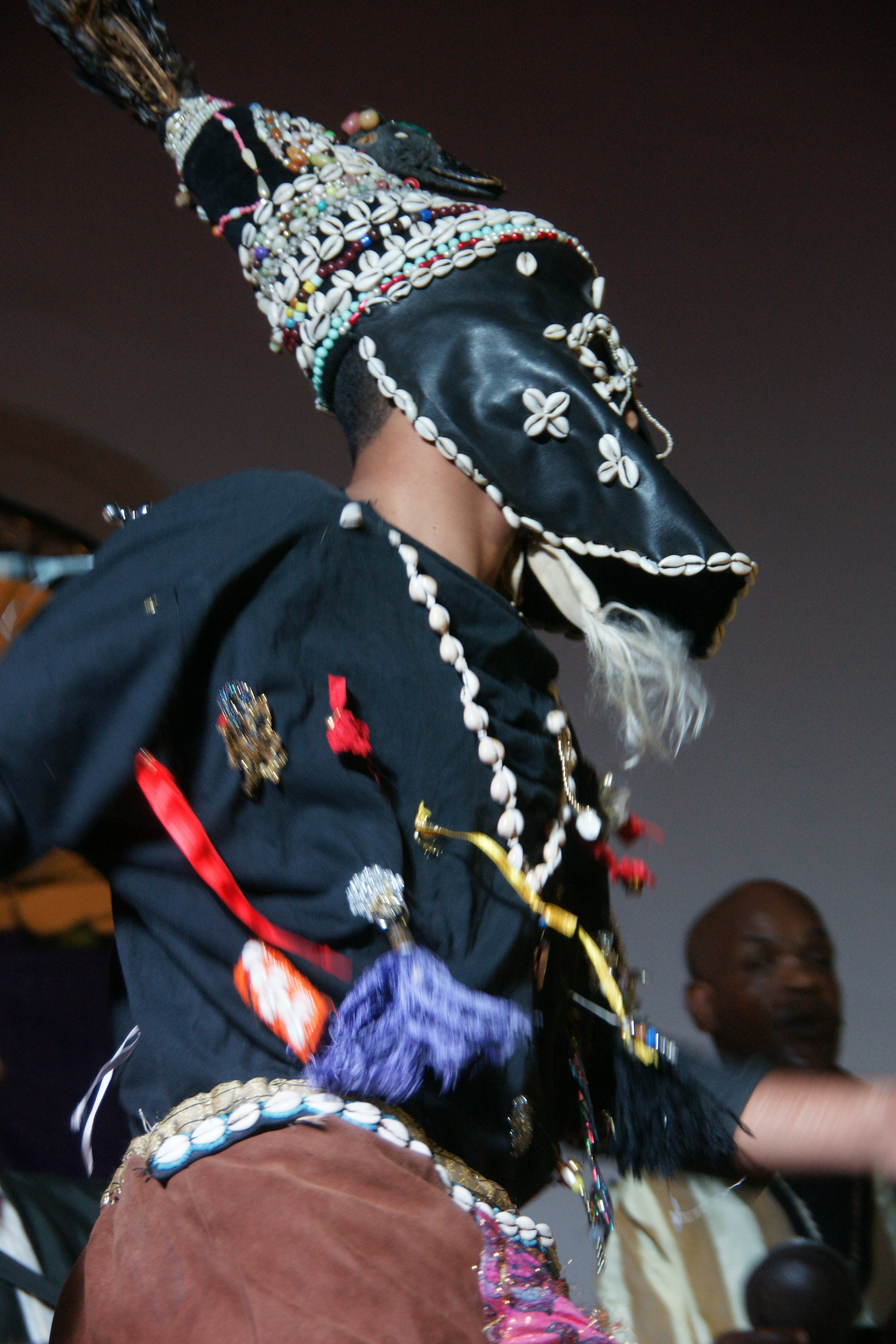 SONY DSC This is an image of music and dance from Tunisia